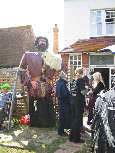 Summary: Eastbourne Giants, Long Man of Wilmington, Sussex. The Eastbourne Giants at the Giant's Rest pub in Wilmington, Sussex (near the Long man of Wilmington). Author:Prince Heathen